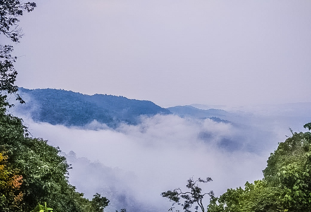 Devimane ghat during winter season in November